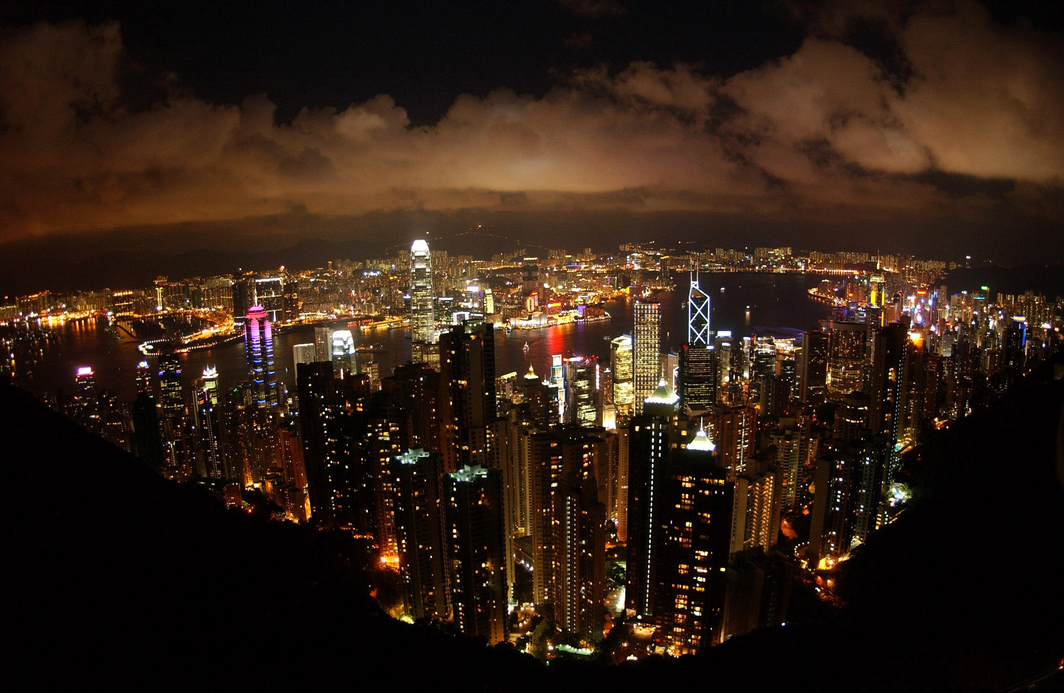 HONG KONG (July 27, 2007) - The evening skyline of Hong Kong as viewed from Victoria Peak. Victoria Peak was one of many places, attractions and tours that Sailors from the Nimitz-class aircraft carrier USS John C. Stennis (CVN 74) took part in while in Hong Kong. The John C. Stennis Carrier Strike Group is on a scheduled deployment to promote peace, regional cooperation and stability. U.S. Navy photo by Ensign Chad Dulac (RELEASED)